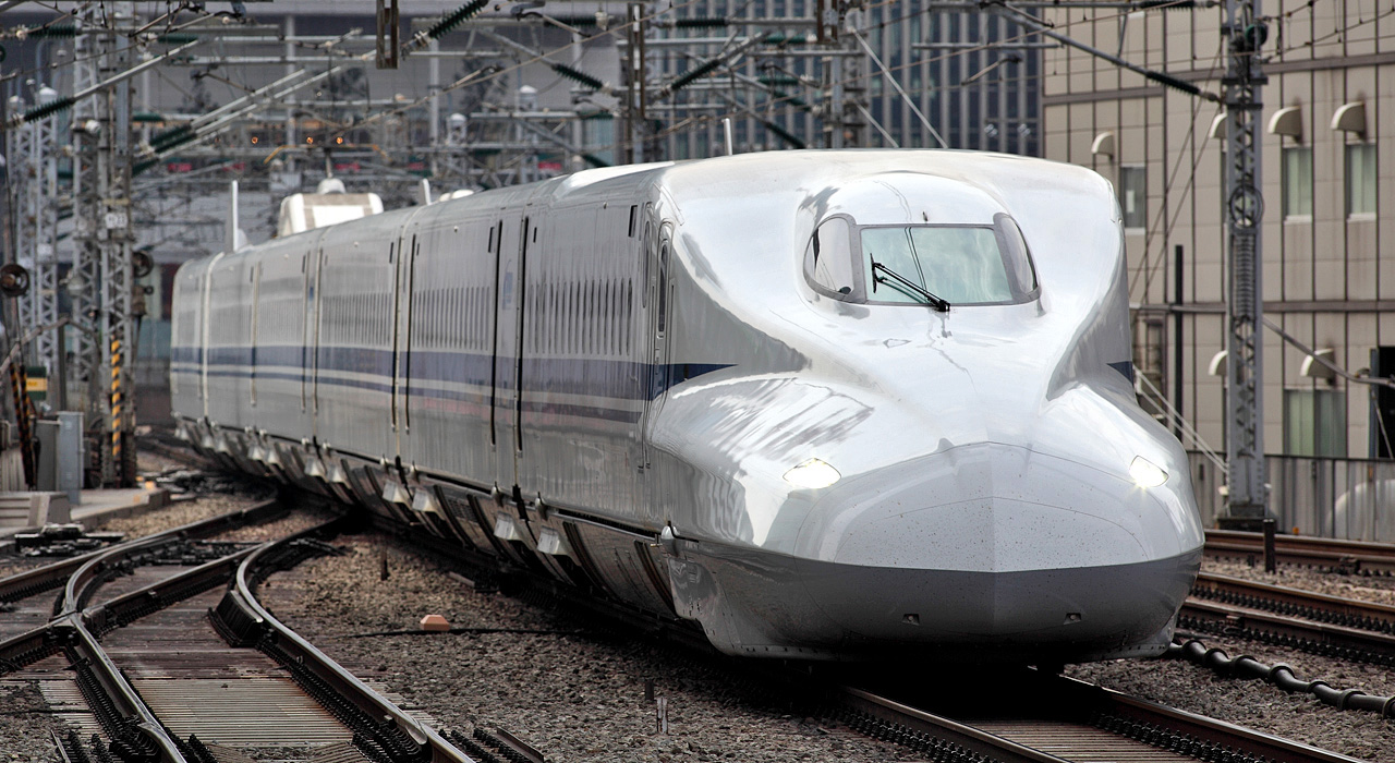 JR Central N700 series Shinkansen set Z31 arriving at Tokyo Station